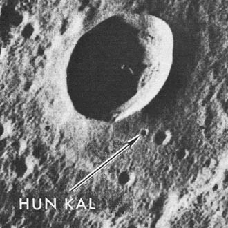 A fresh new crater in the center of an older crater basin provides a landmark for the tiny crater named Hun kal- the Mayan number 20 - which is the basis for positioning the longitudes on Mercury. By definition, the 20° meridian passes through the center of this small crater. Assuming that the spin axis of Mercury is perpendicular to its orbital plane, the latitude of Hun Kal is 0.23°S. This picture, which covers an area of 130 by 170 km ( 90 by 105 mi), was taken from a distance of about 20,700 km (12,860 mi), a half-hour before Mariner made its first close flyby of Mercury, March 1974.